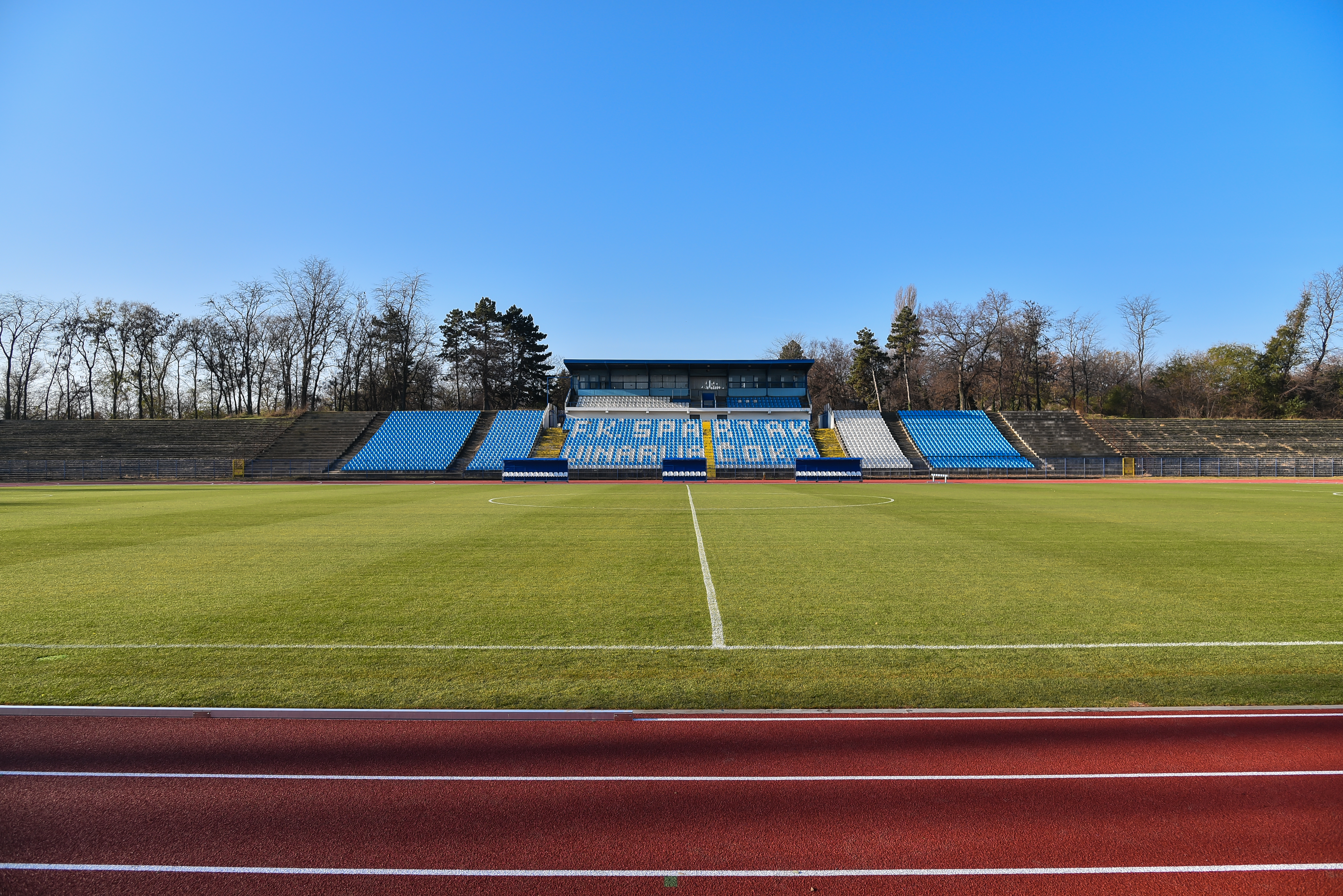 Subotica City Stadium, Subotica, Serbia Српски (ћирилица): Градски стадион Суботица, Суботица, Србија.